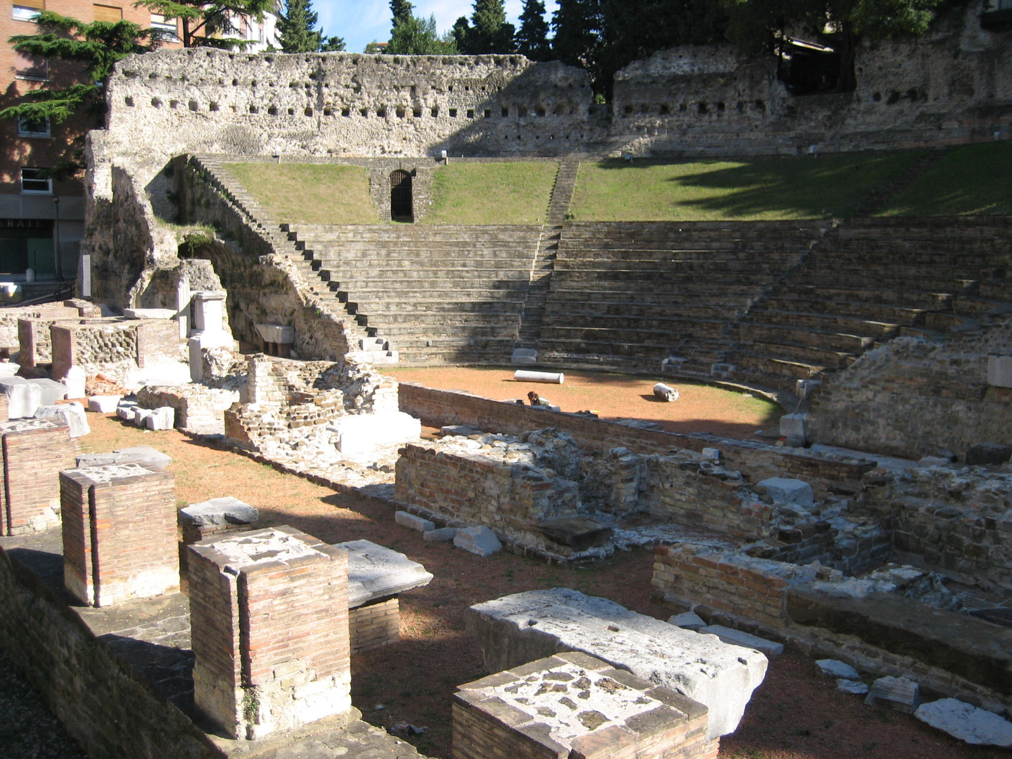 Teatro Romano di Trieste, the Roman Amphitheatre of Trieste, Italy